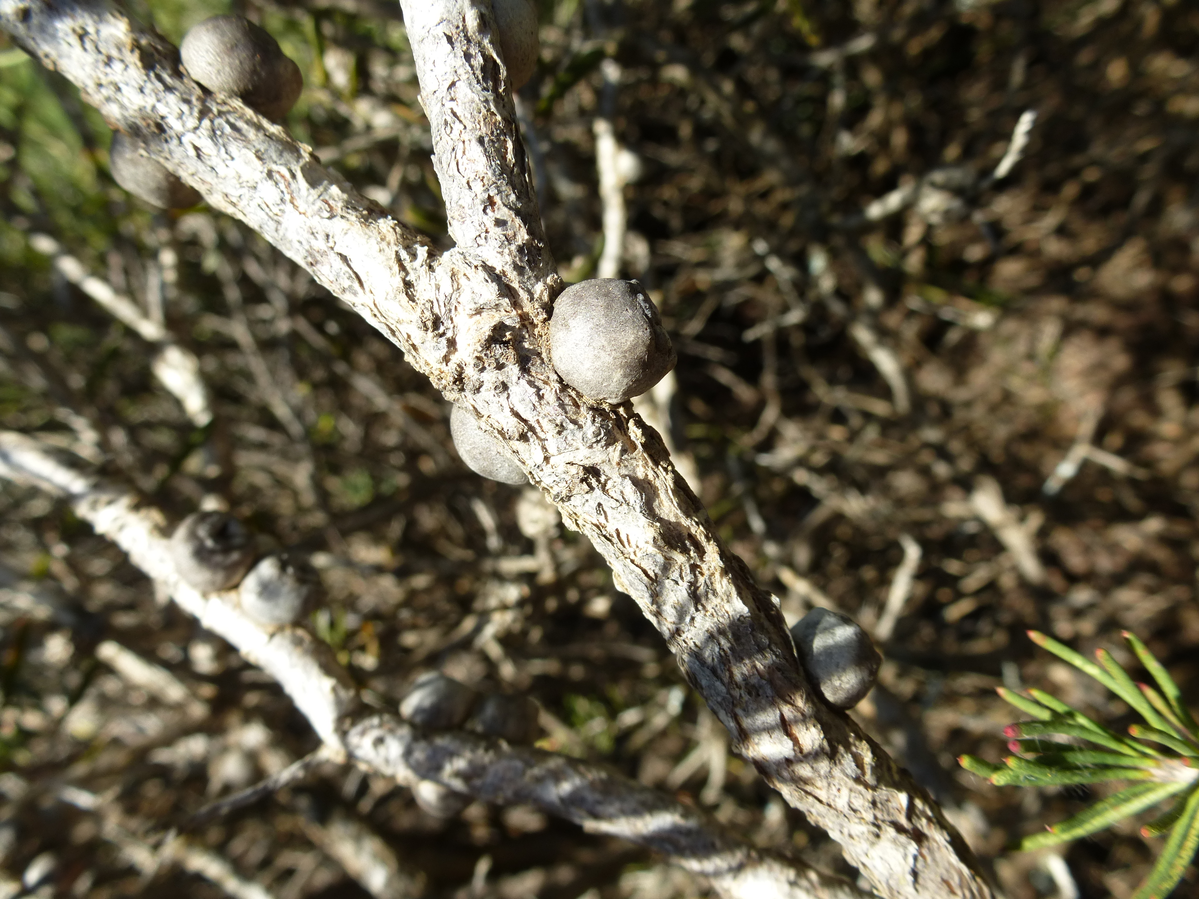 Calothamnus hirsutus growing 25 km north of Eneabba